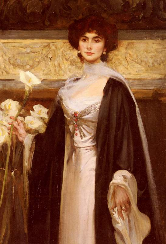 Portrait of Baroness Alfred De Meyer